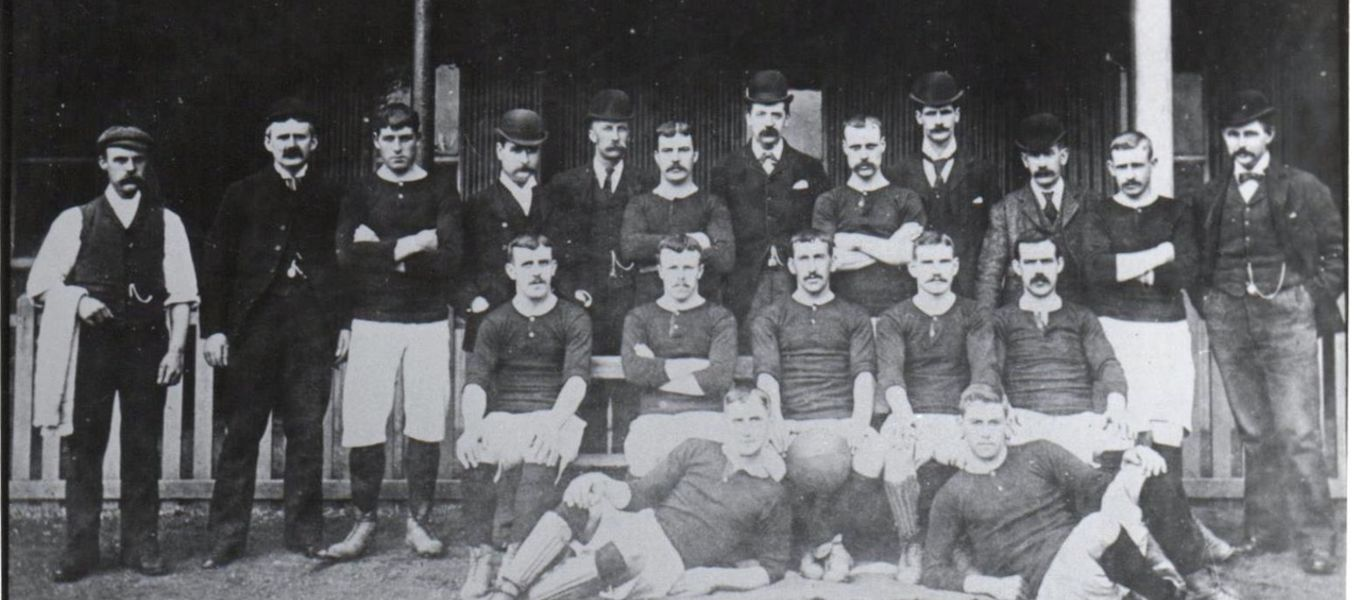 1895 Scottish Division One Winners